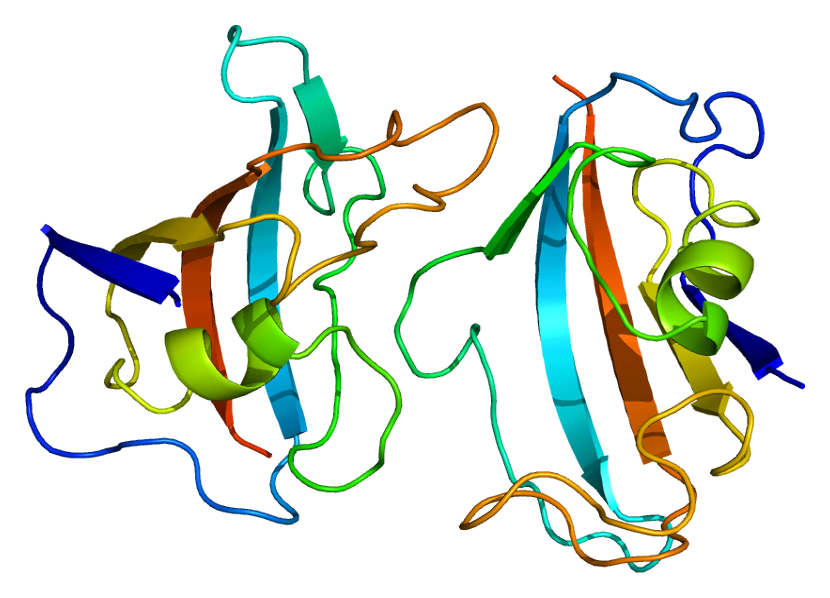 Structure of the FKBP1A protein. Based on PyMOL rendering of PDB 1a7x.